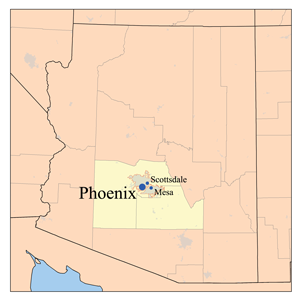 This is a map of the Phoenix Metropolitan Area I made using U.S. Census Bureau data. The Metropolitan Statistical Area is shown in yellow. The light gray shading indicates urbanized areas with the Phoenix metro area as defined by urbanized areas outlined.